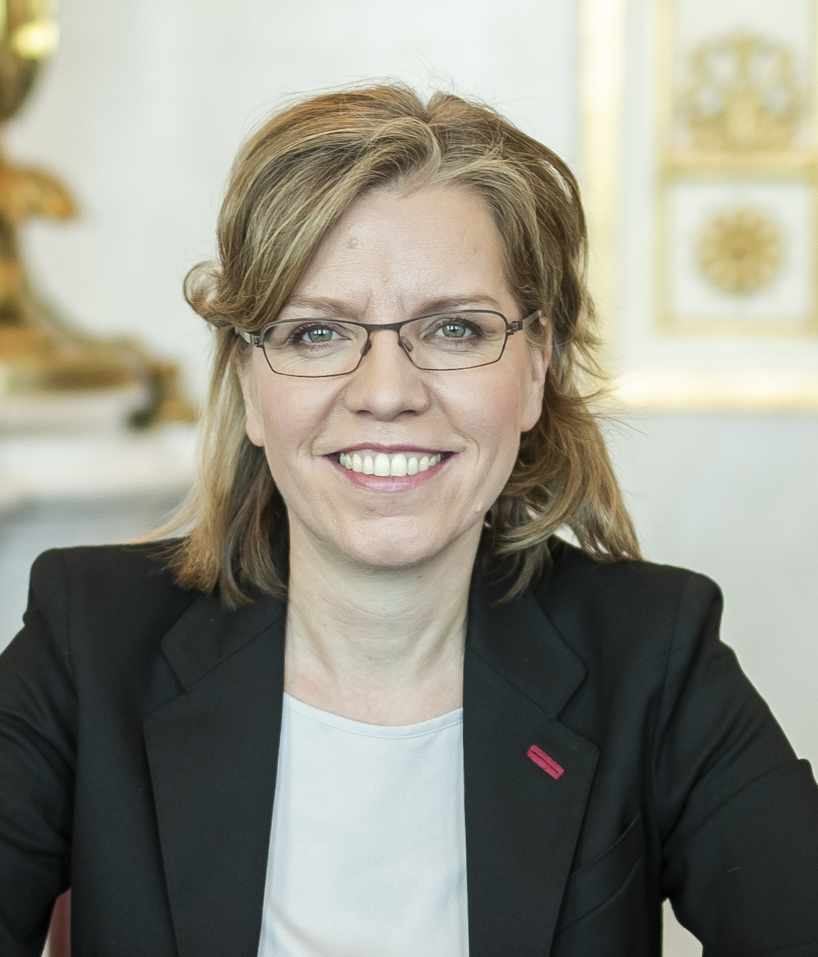 Fotocredit: BKA